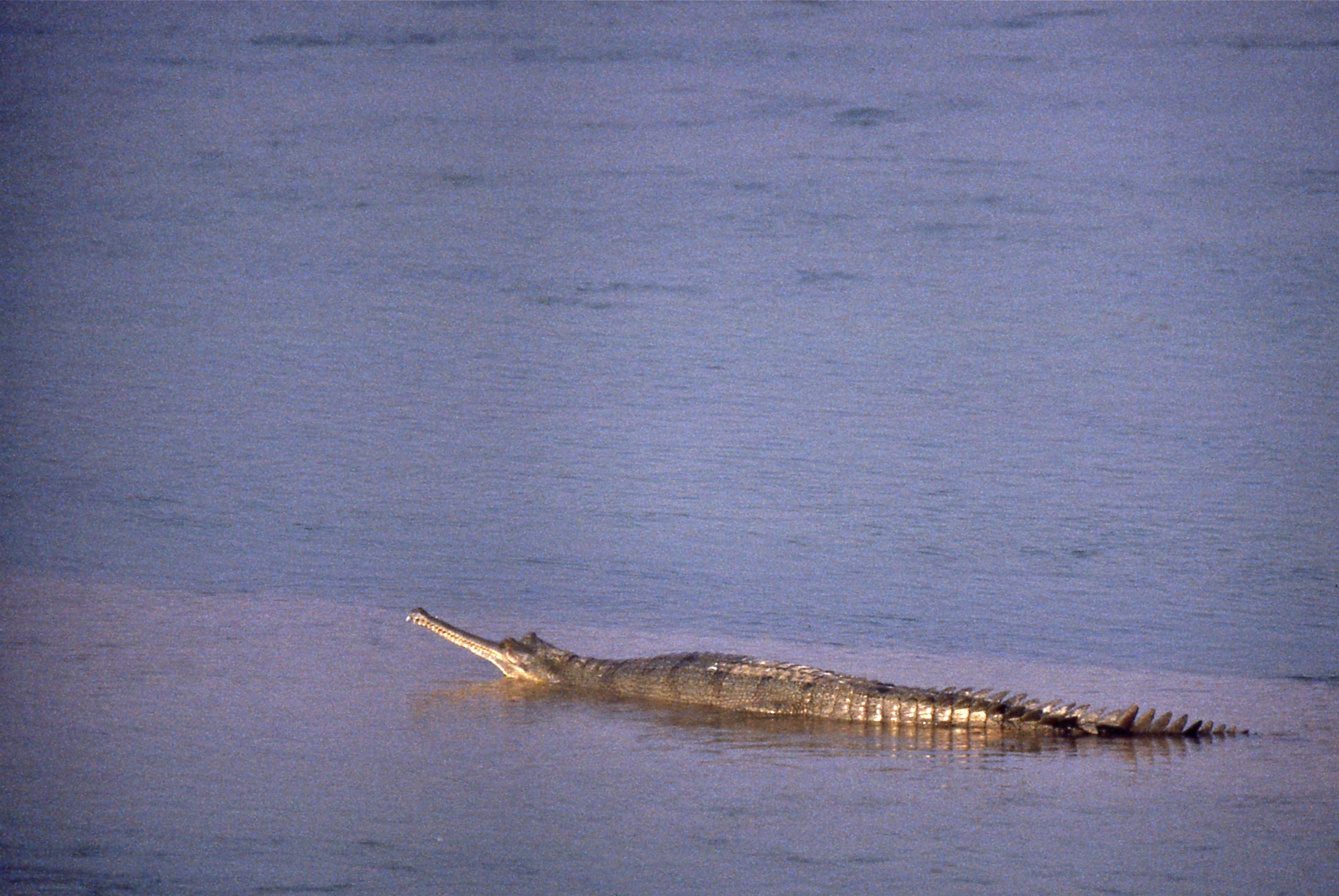 Rapti River, Chitwan NP, Terai, NEPAL Scanned Slide from January 1996